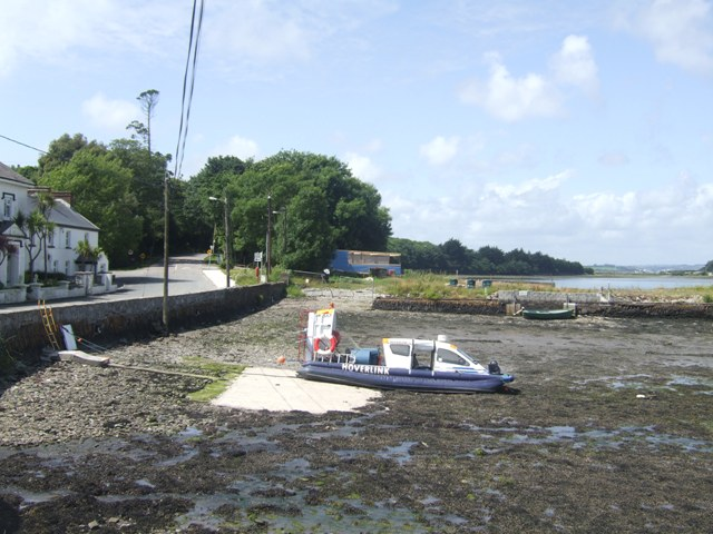 Whitegate Bay The hovercraft offers trips around Cork Harbour.